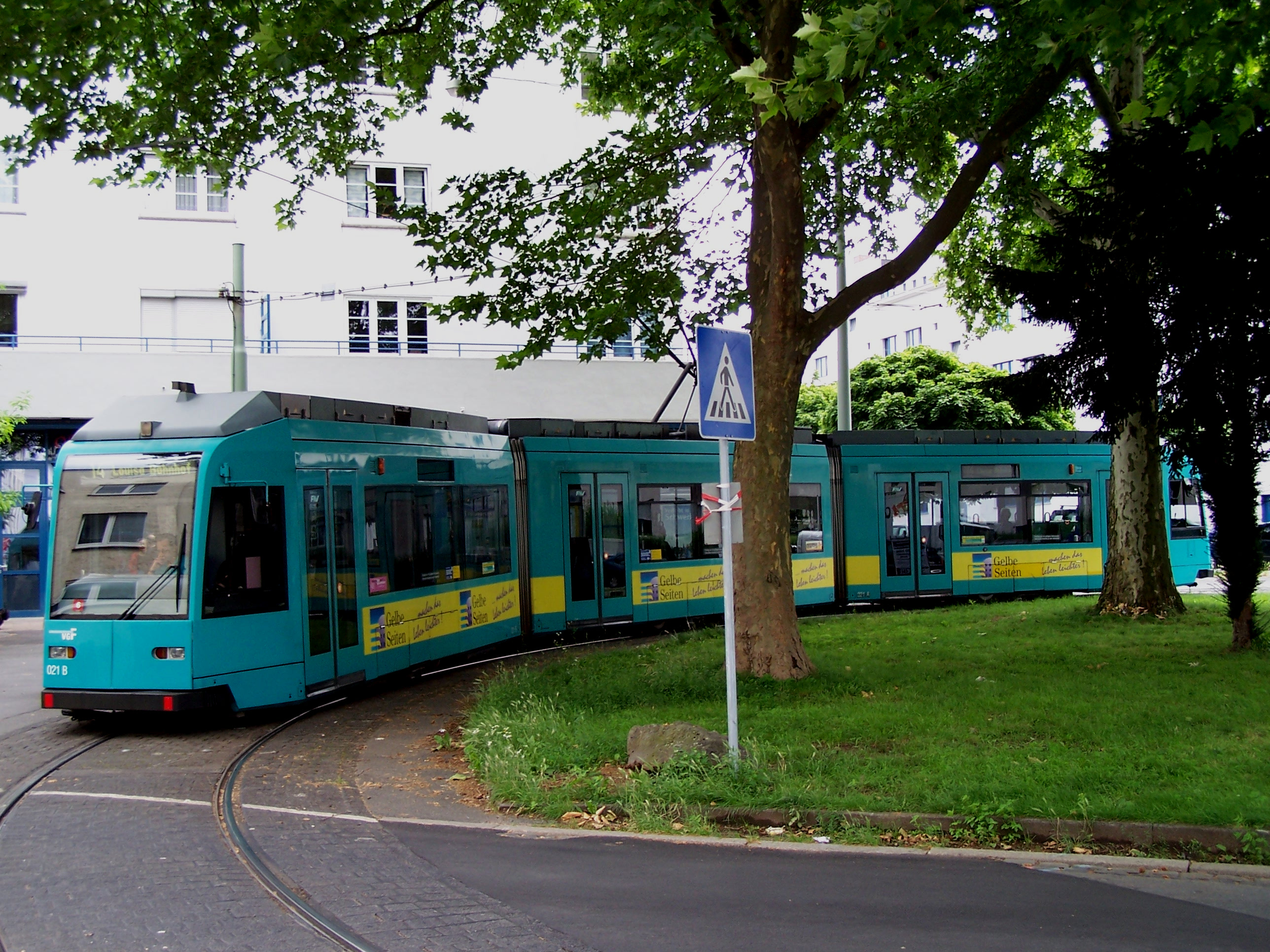 VGF type R railcar 021 at Ernst-May-Platz, Bornheim, Frankfurt am Main, Germany, June 24, 2007